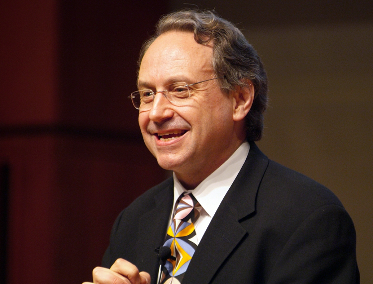 Photograph of Rodney Brooks, speaker at "Moore's Law at 40 Symposium", 12-13 May 2005, organized by the Chemical Heritage Foundation.